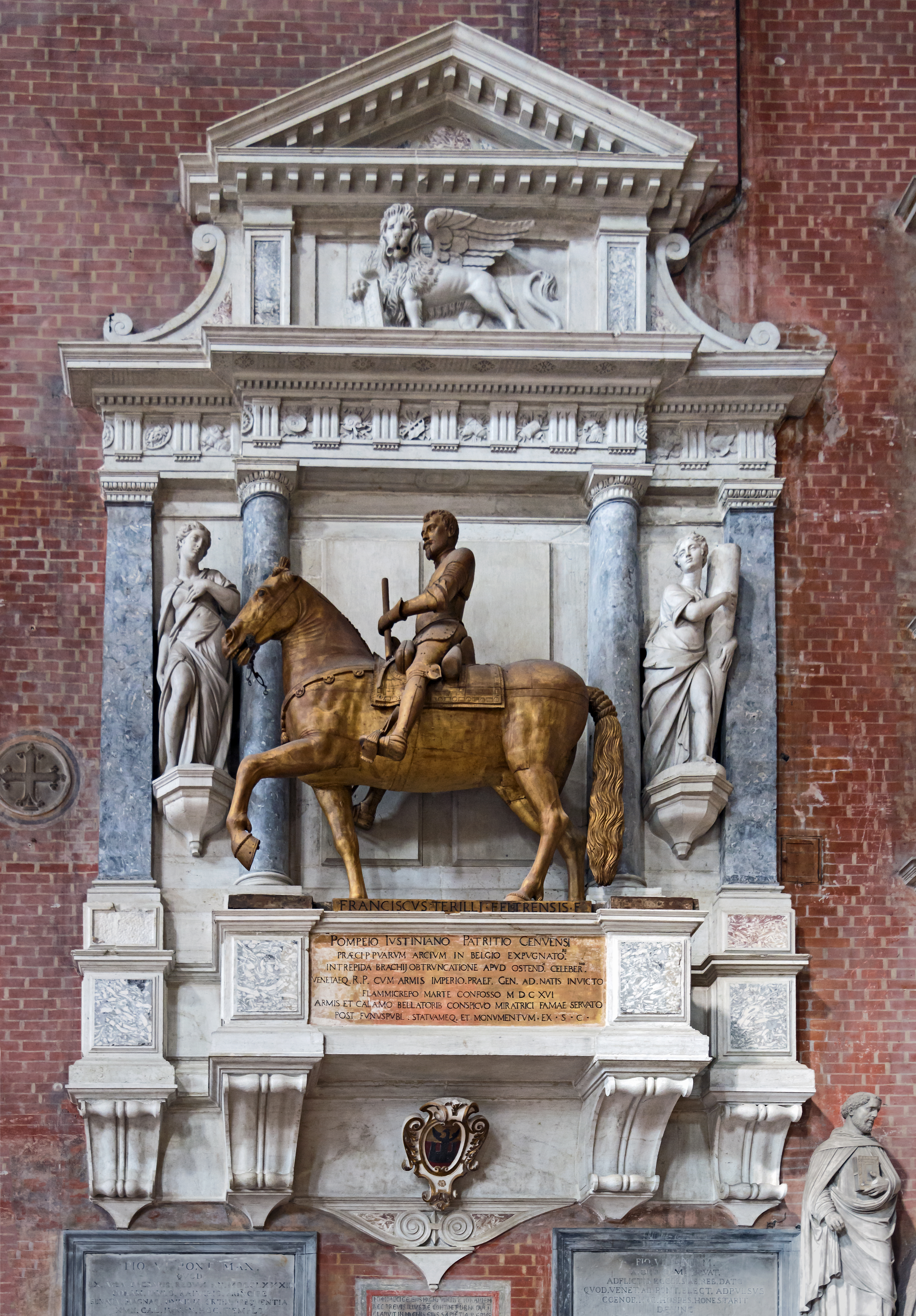 Santi Giovanni e Paolo in Venice - Monument to Pompeo Giustiniani by Francesco Terillio.